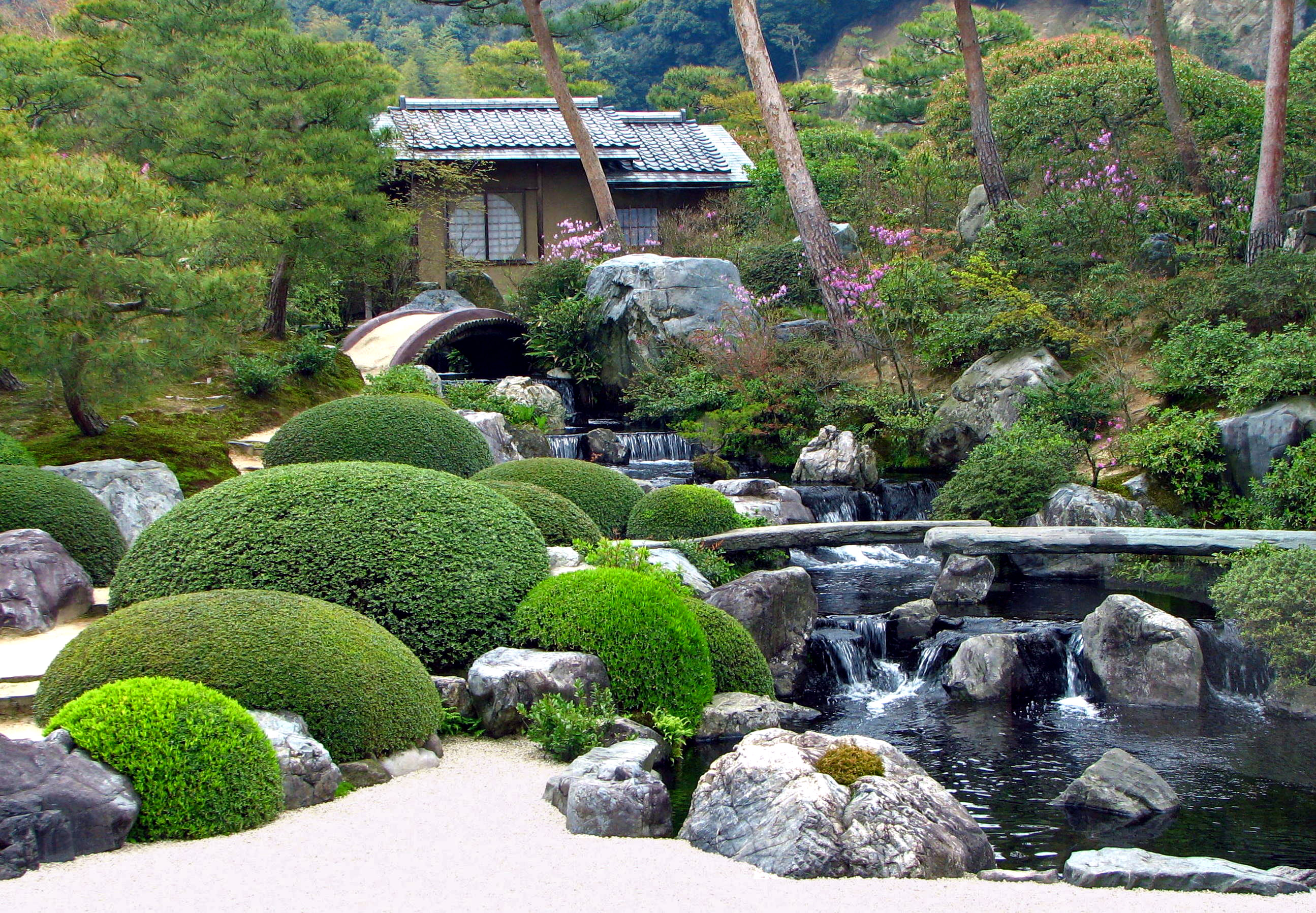 Adachi Museum of Art Garden, Yasugi City, Shimane Prefecture, Japan